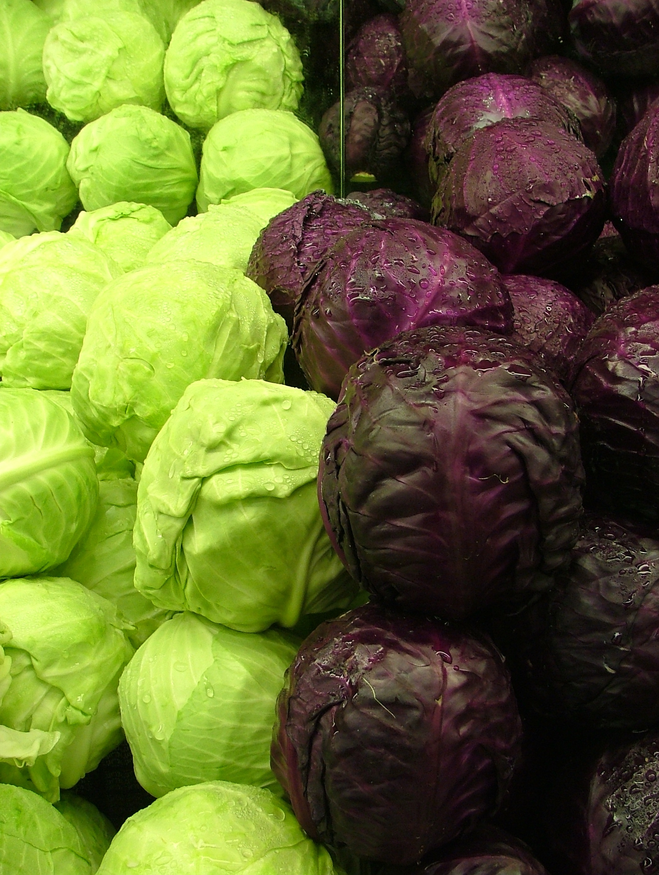 A photograph of green and purple cabbages.